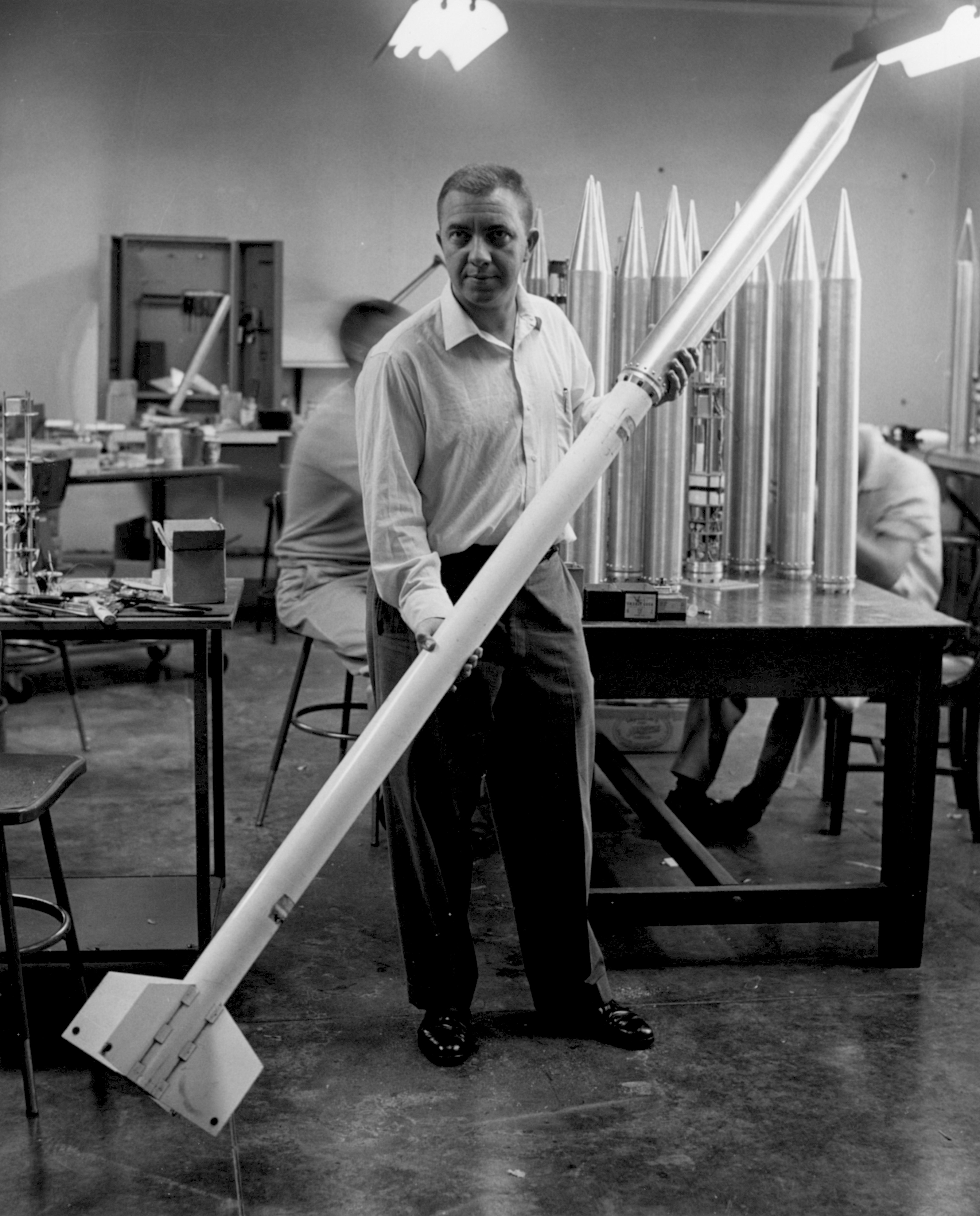 James Van Allen of the University of Iowa poses in workshop with a rocket and scientific instrument package (Rockoon).